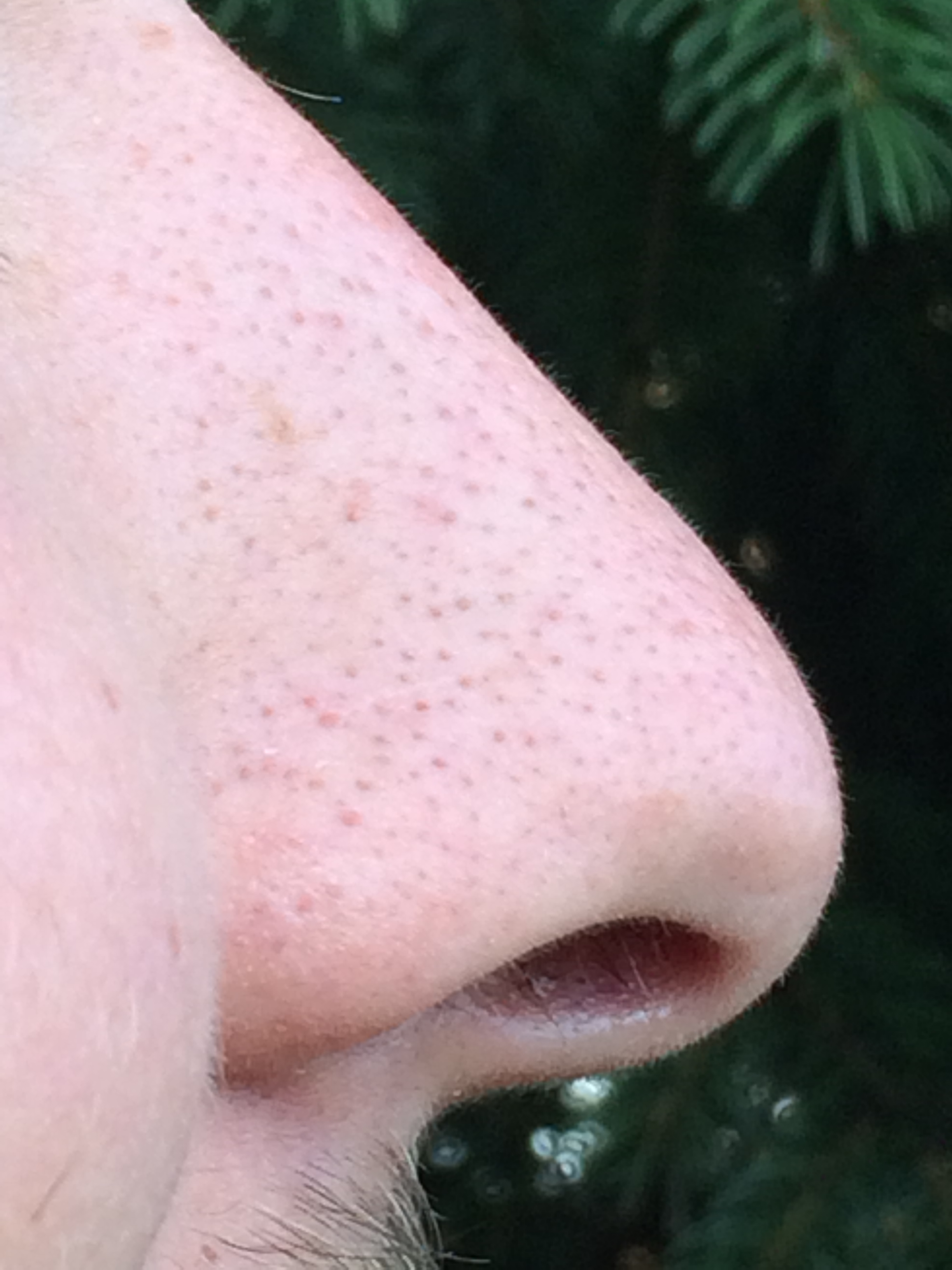 Human nose in profile